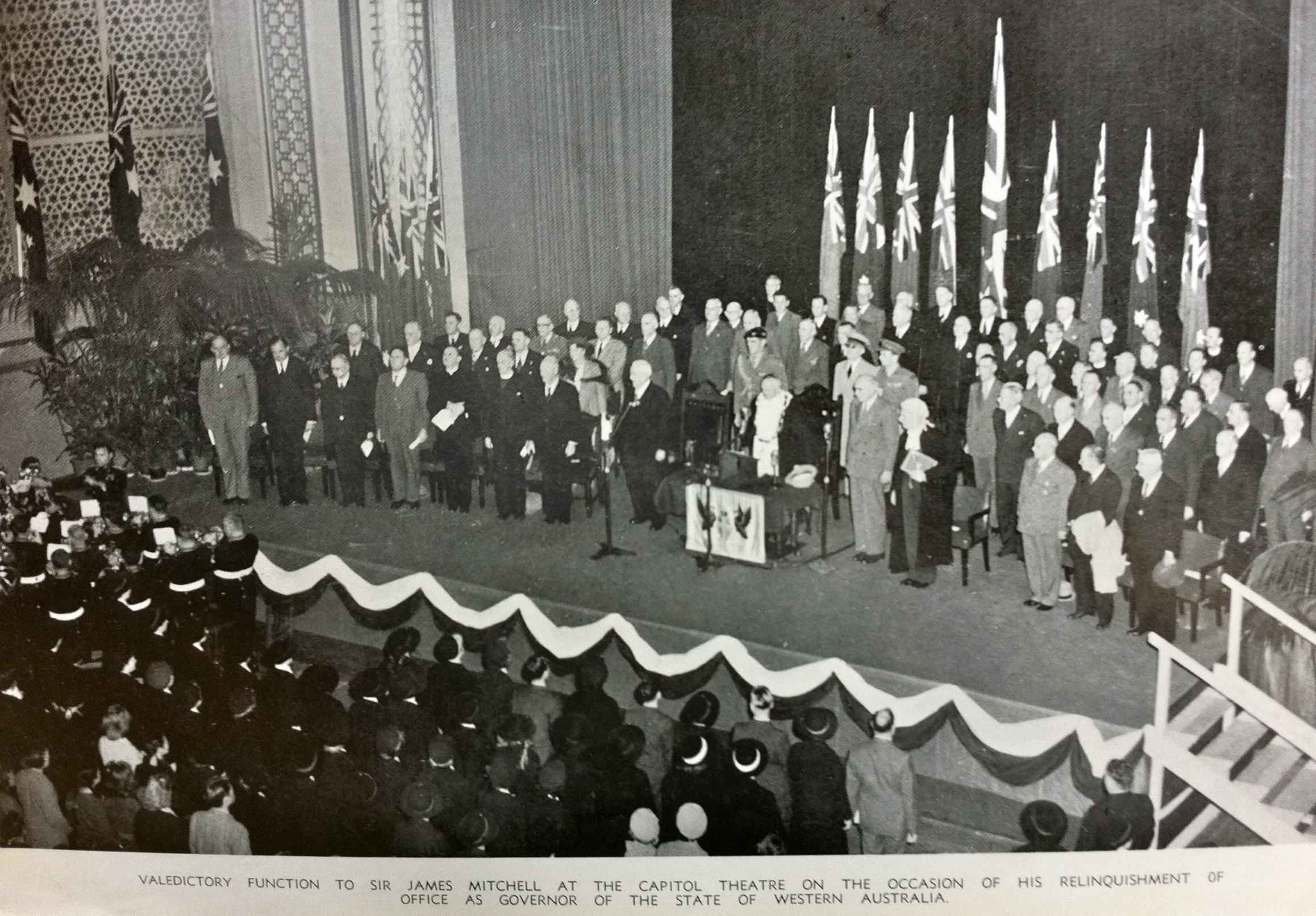 Inside the Capitol Theatre, Perth, Western Australia Being used as government formal occasion location in 1950's